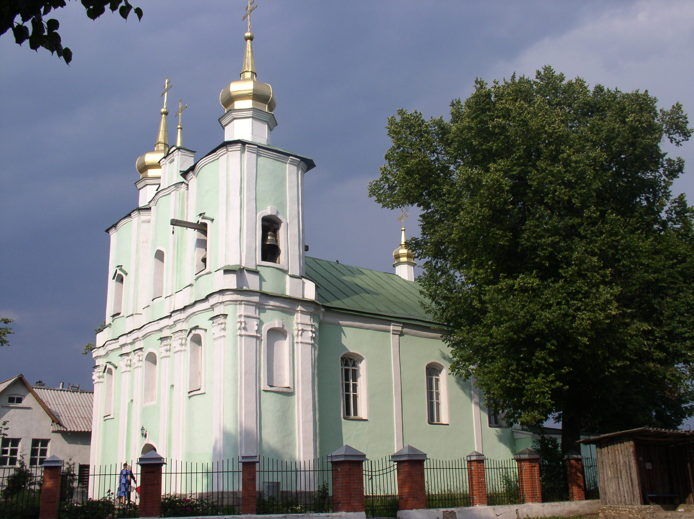 Church of Holy Trinity. Sebezh, Russia.